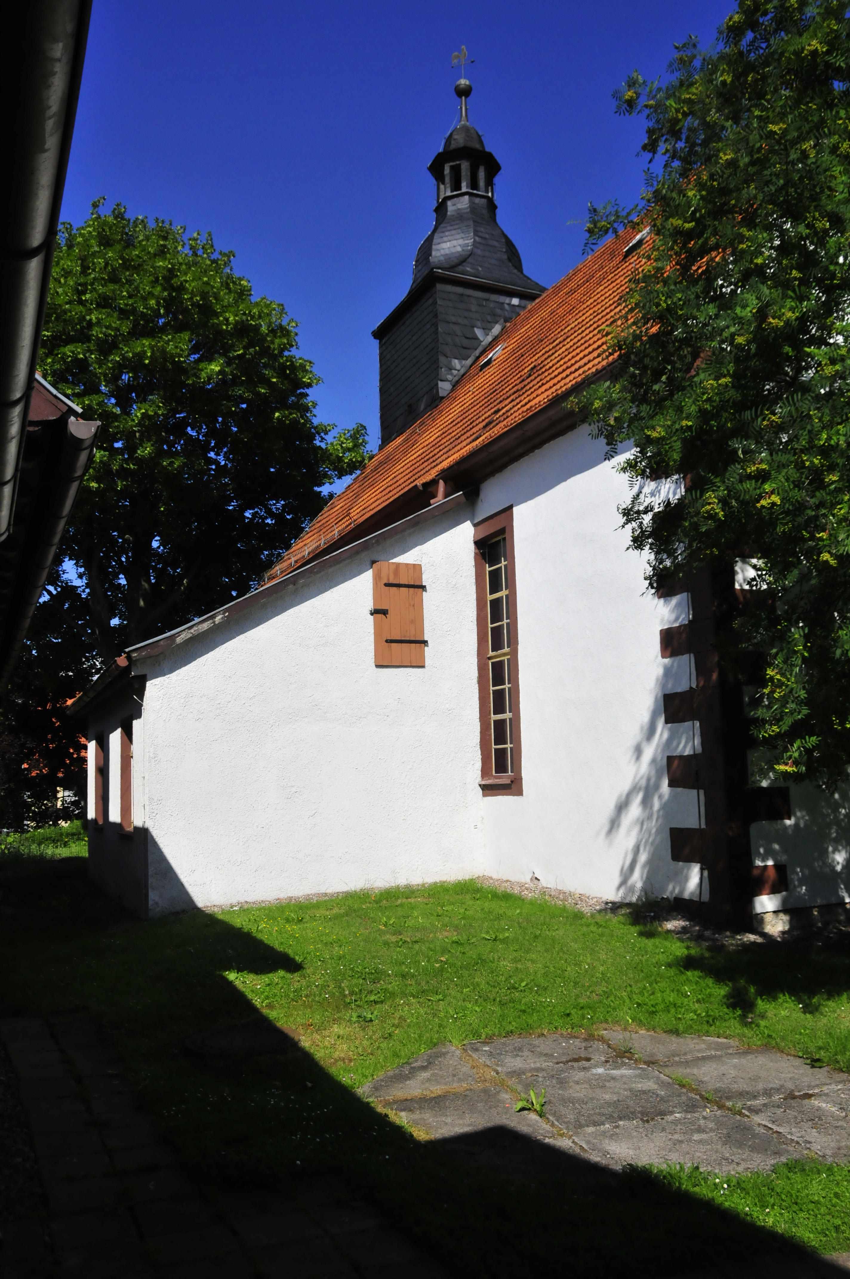 Church in Petriroda